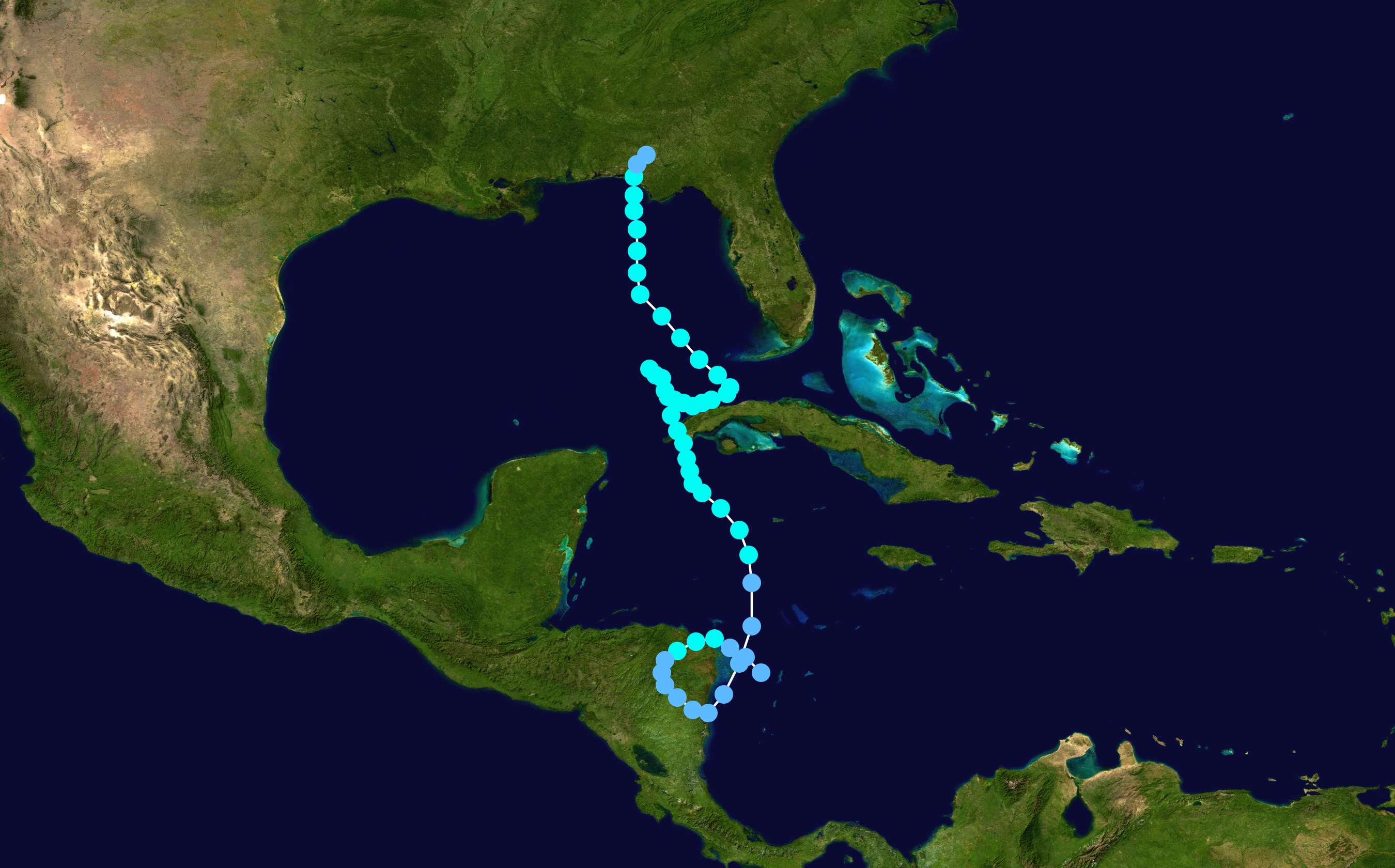 Track map of Tropical Storm Alice of the 1953 Atlantic hurricane season. The points show the location of the storm at 6-hour intervals. The colour represents the storm's maximum sustained wind speeds as classified in the Saffir–Simpson hurricane wind scale (see below), and the shape of the data points represent the nature of the storm, according to the legend below. Saffir–Simpson hurricane wind scale Tropical depression≤38 mph≤62 km/h Category 3111–129 mph178–208 km/h Tropical storm39–73 mph63–118 km/h Category 4130–156 mph209–251 km/h Category 174–95 mph119–153 km/h Category 5≥157 mph≥252 km/h Category 296–110 mph154–177 km/h Unknown Storm typeTropical cycloneSubtropical cycloneExtratropical cyclone / Remnant low / Tropical disturbance